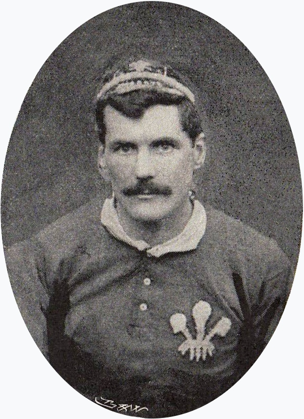 Arthur Gould - Welsh international rugby player of the 19th century